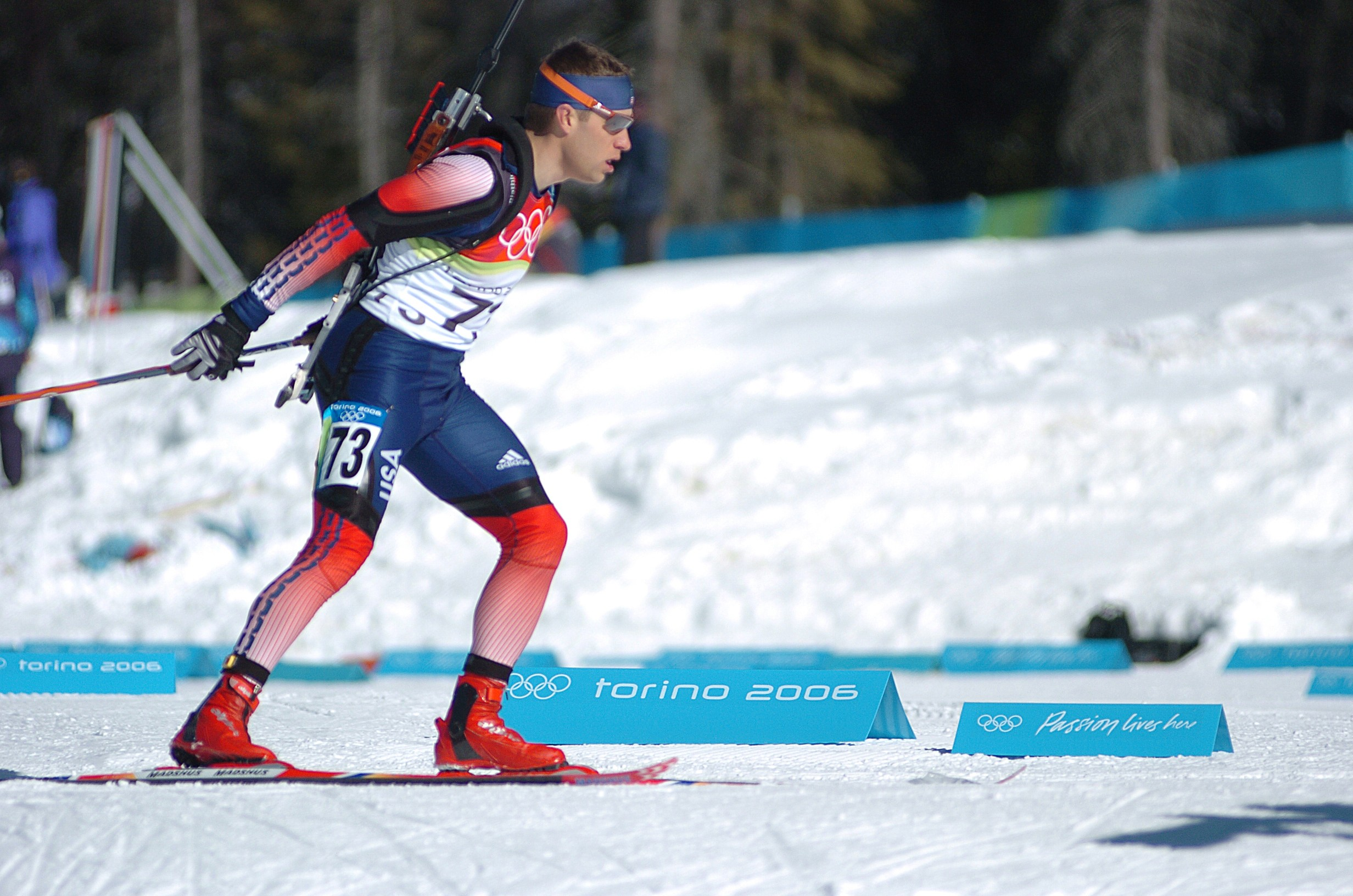 Spc. Jeremy Teela, a member of the Army World Class Athlete Program, enters the biathlon course during the Men’s 20 kilometer Individual biathlon competition at the XX Winter Games in Torino, Italy. Teela completed the race in 1 hour, 1 minute, 3.3 seconds after 5 minutes were added to his ski time for missing five of 20 targets. He finished the competition in 51st place out of 88 competitors